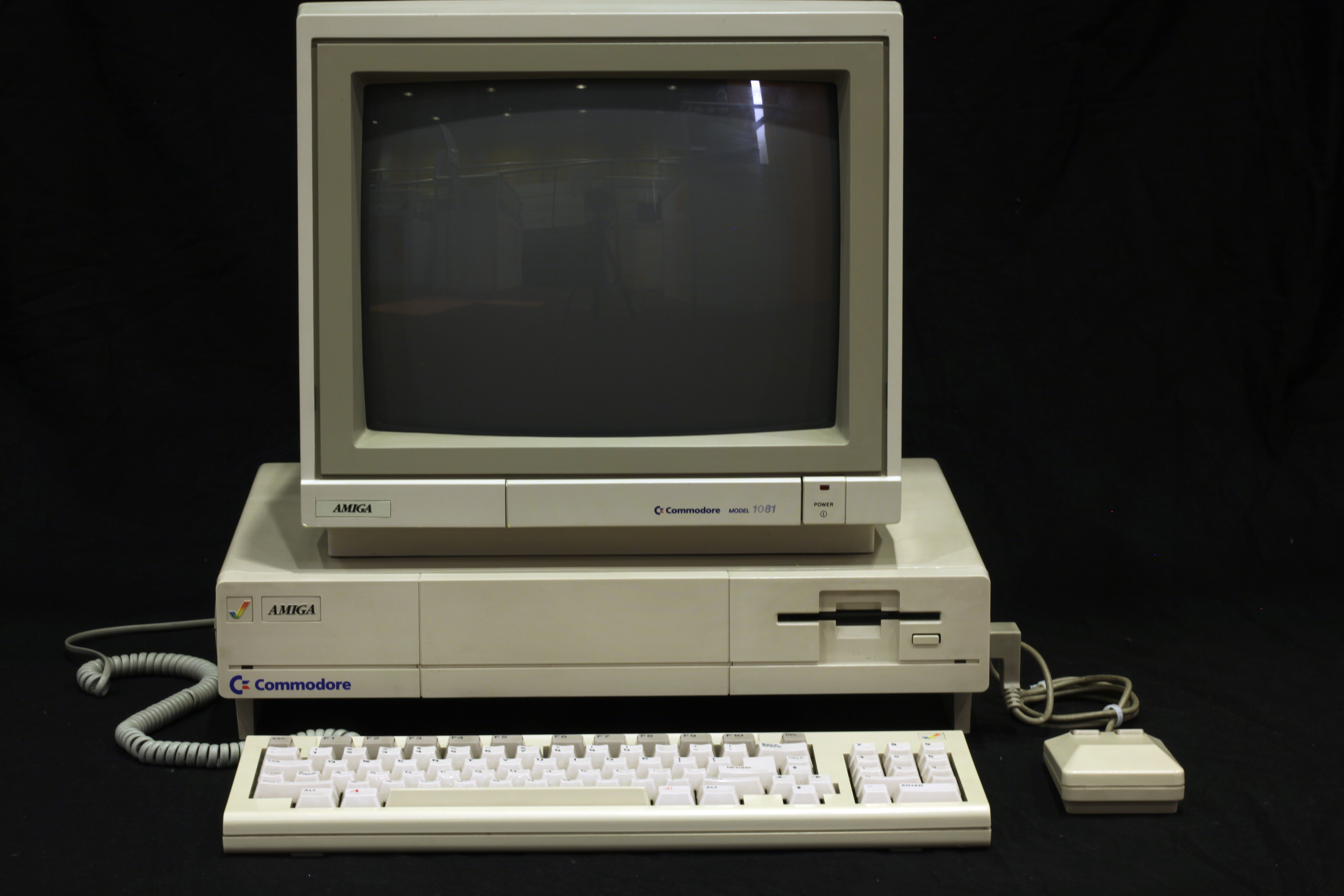 Amiga 1000 computer. On display at the Musée Bolo, EPFL, Lausanne.